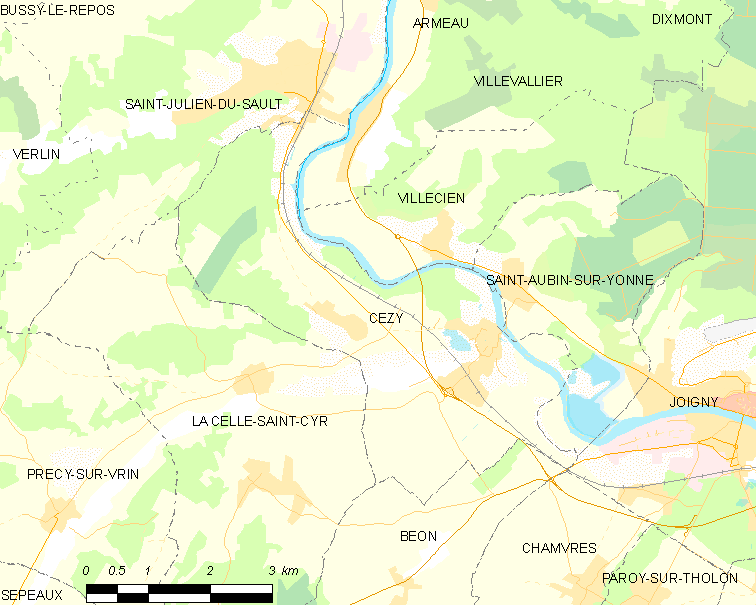 Map of French municipality Cézy